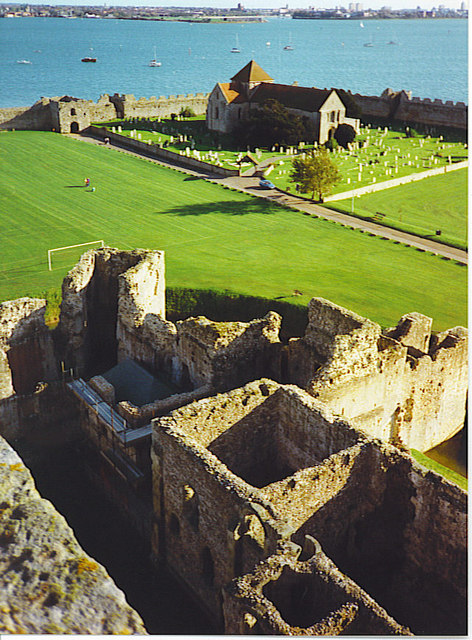 Portchester Castle and Church from the Tower Looking south-west across the castle towards Portsmouth.